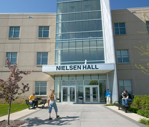 Nielsen Hall - Business classes are located here